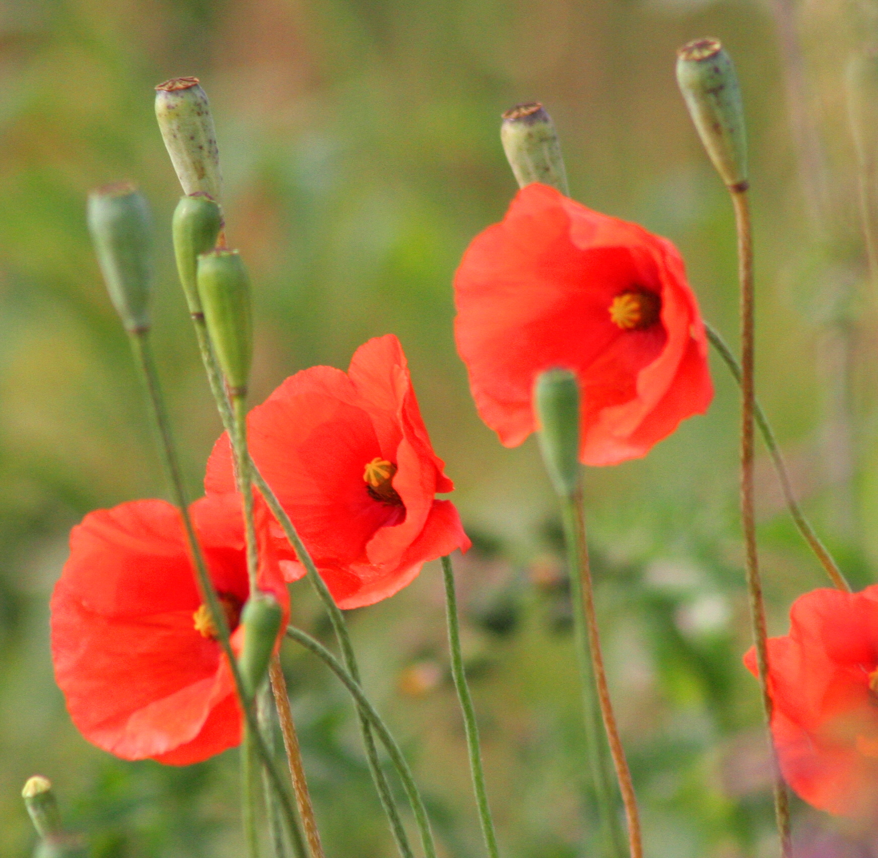 Papaver dubium subsp. dubium Made Explore 13th November 2007 # 326